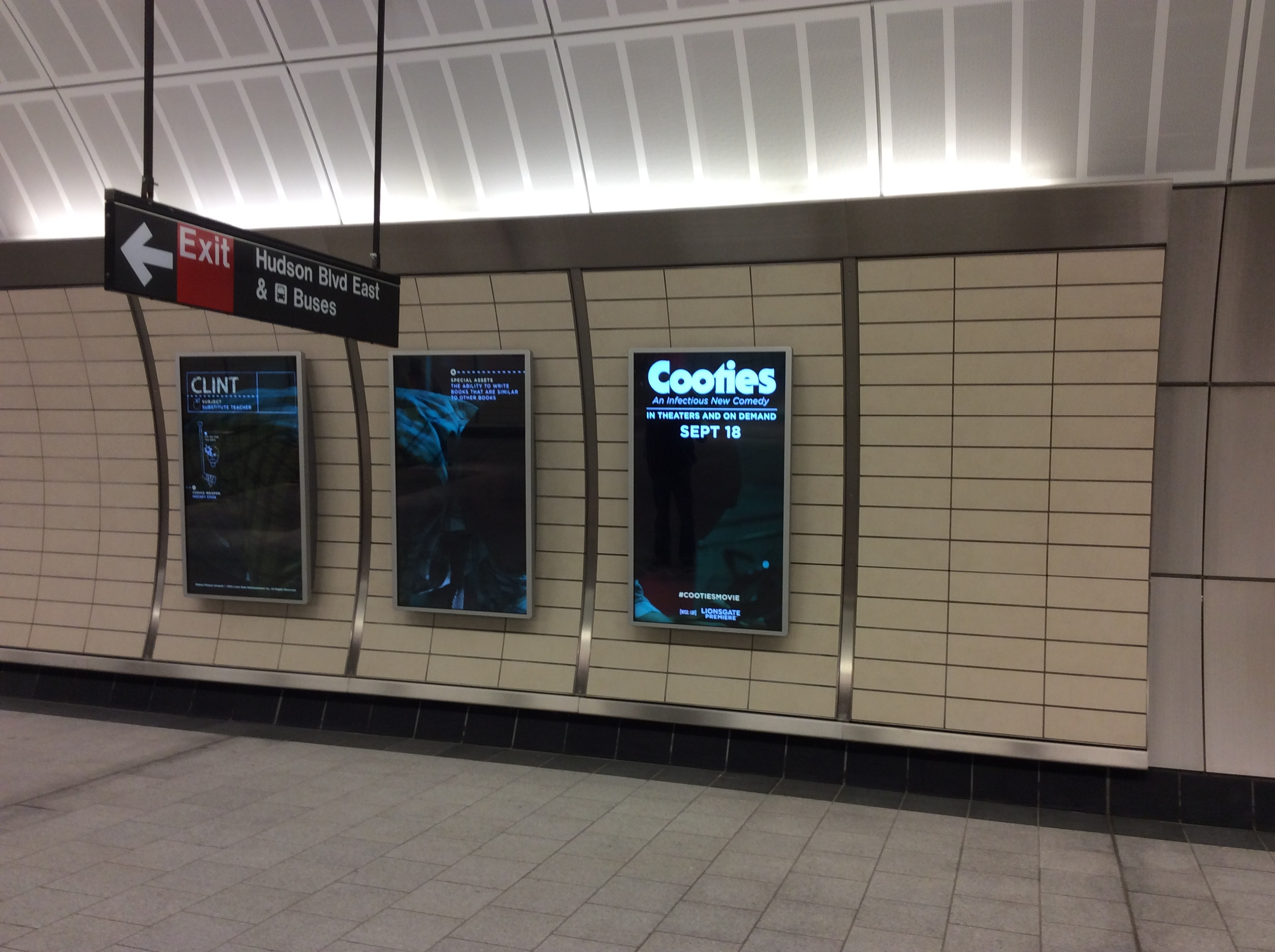 The 34th Street-Hudson Yards subway station, September 16, 2015